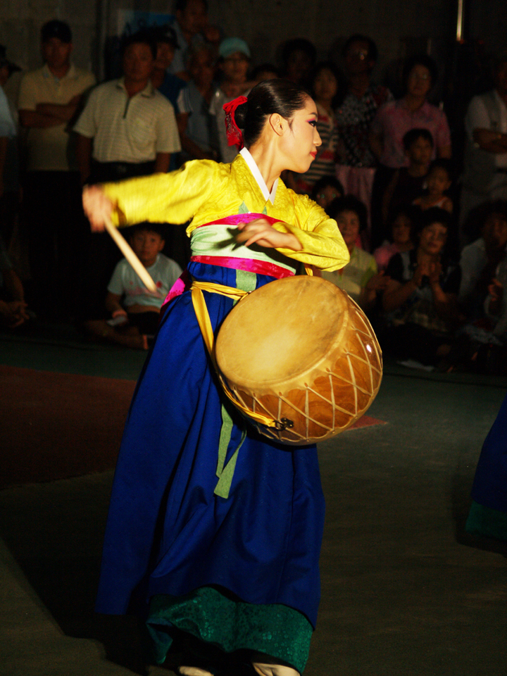 Korean Traditional Dance : Book Choom